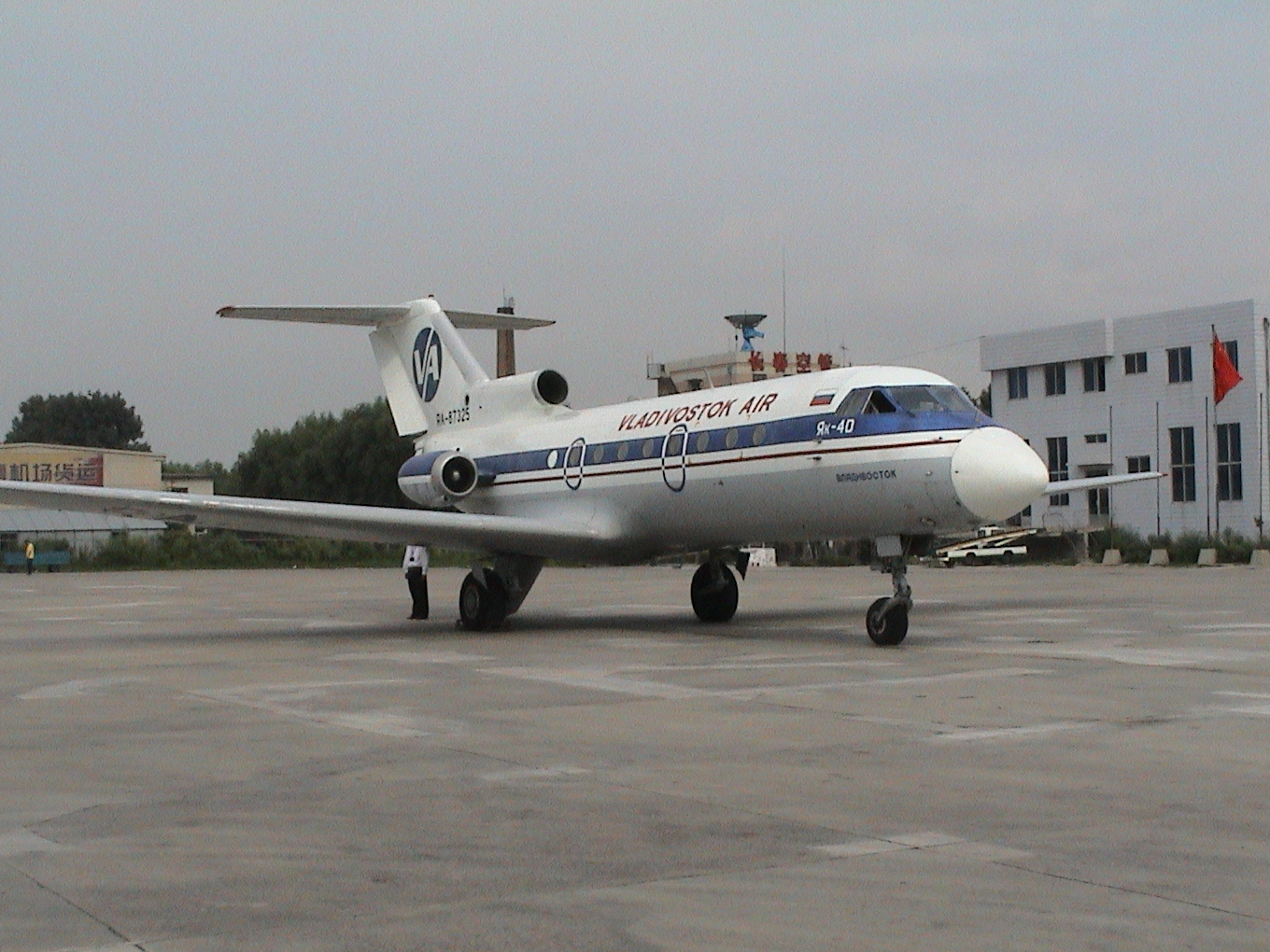 A YAK-40 from Vladivostok Air (Vladivostok Avia) at Changchun airport, China